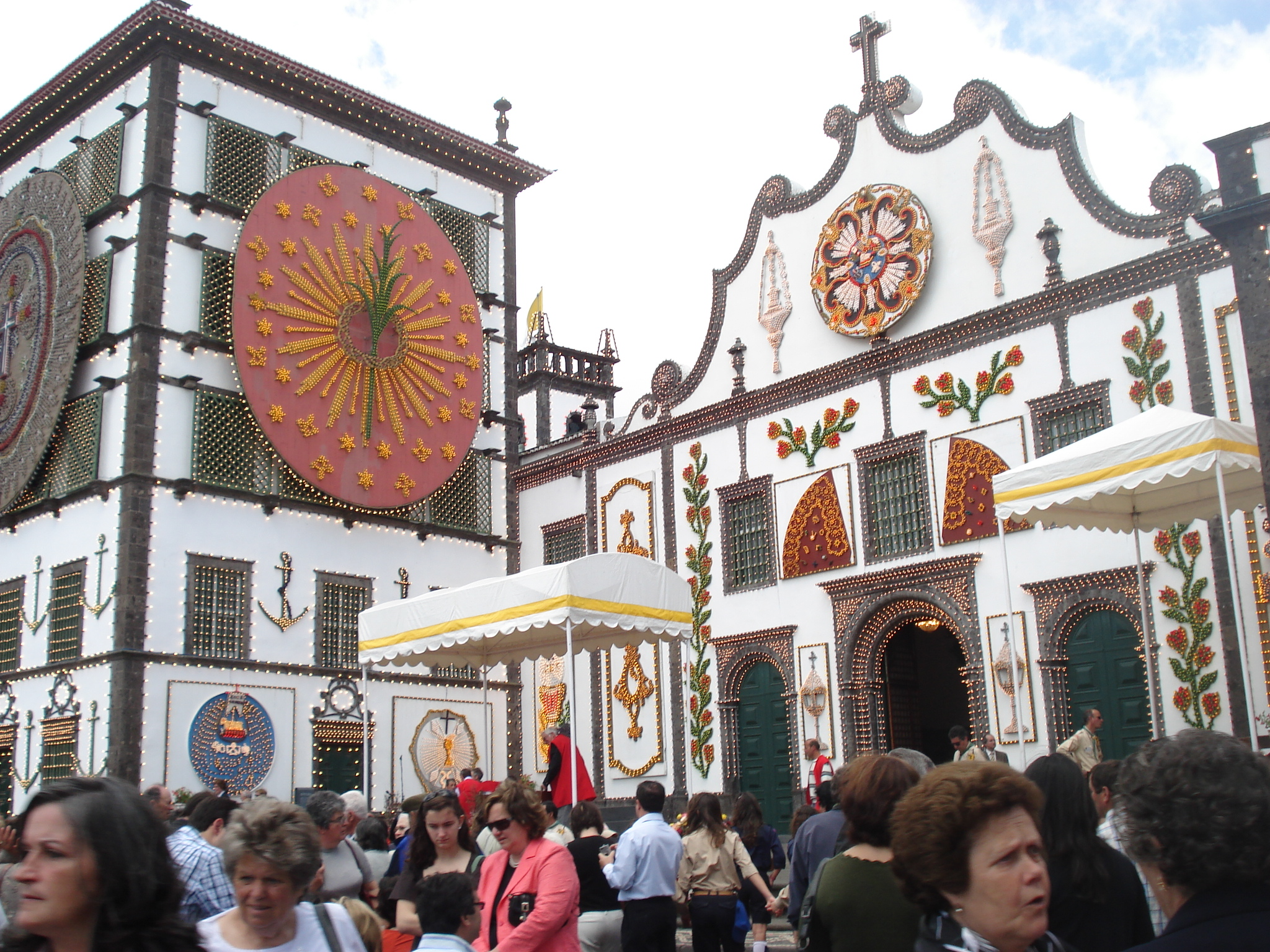 The Convent of Esperança, civil parish of São José, municipality of Ponta Delgada (Azores), Portugal